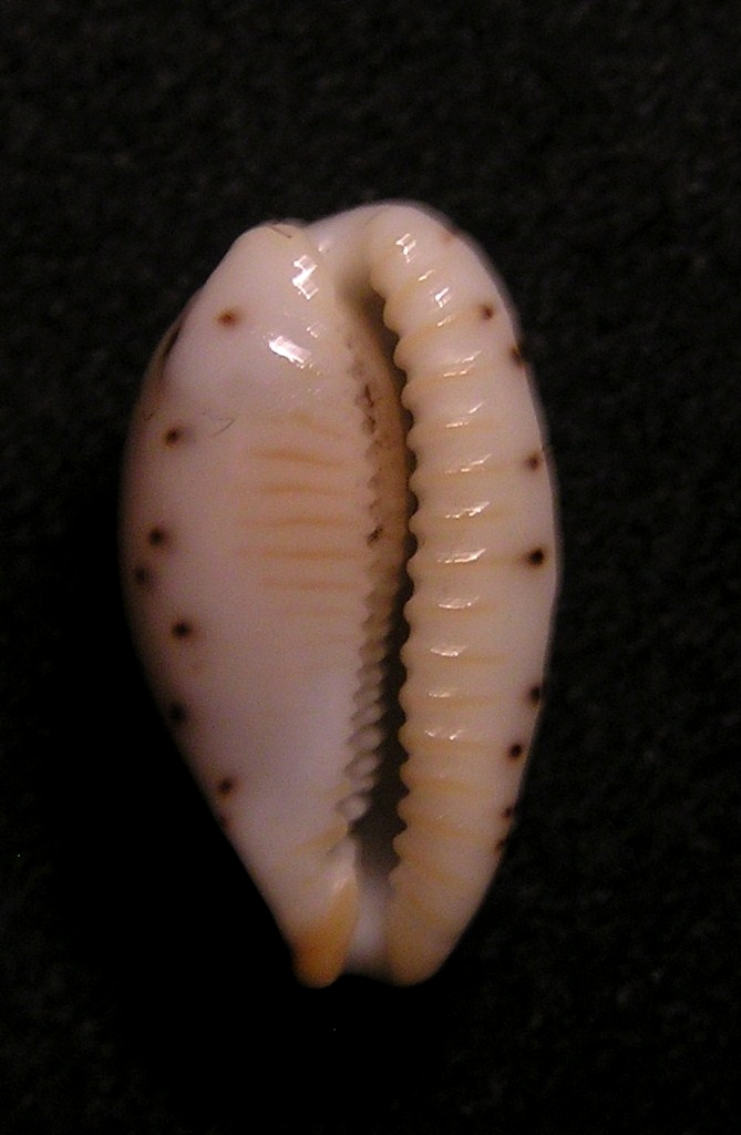 Notadusta punctata (Linnaeus, 1771) (synonym: Ransoniella glandina Dolin, 2007), a cowry from the family Cypraeidae; Philippines